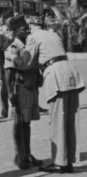 Paul Koudoussara, compagnon de la Libération, awarded by General de Gaulle